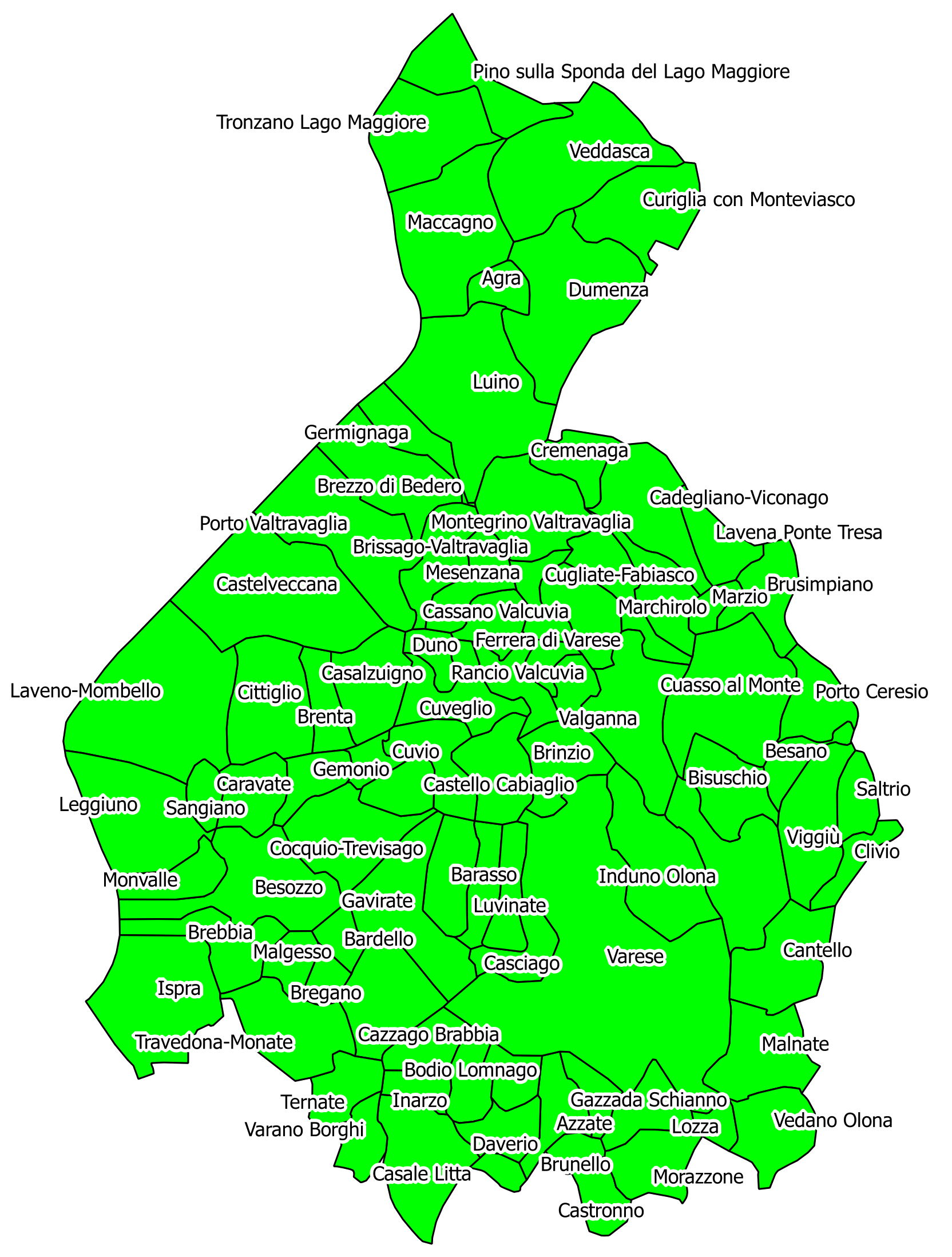 made with qgis